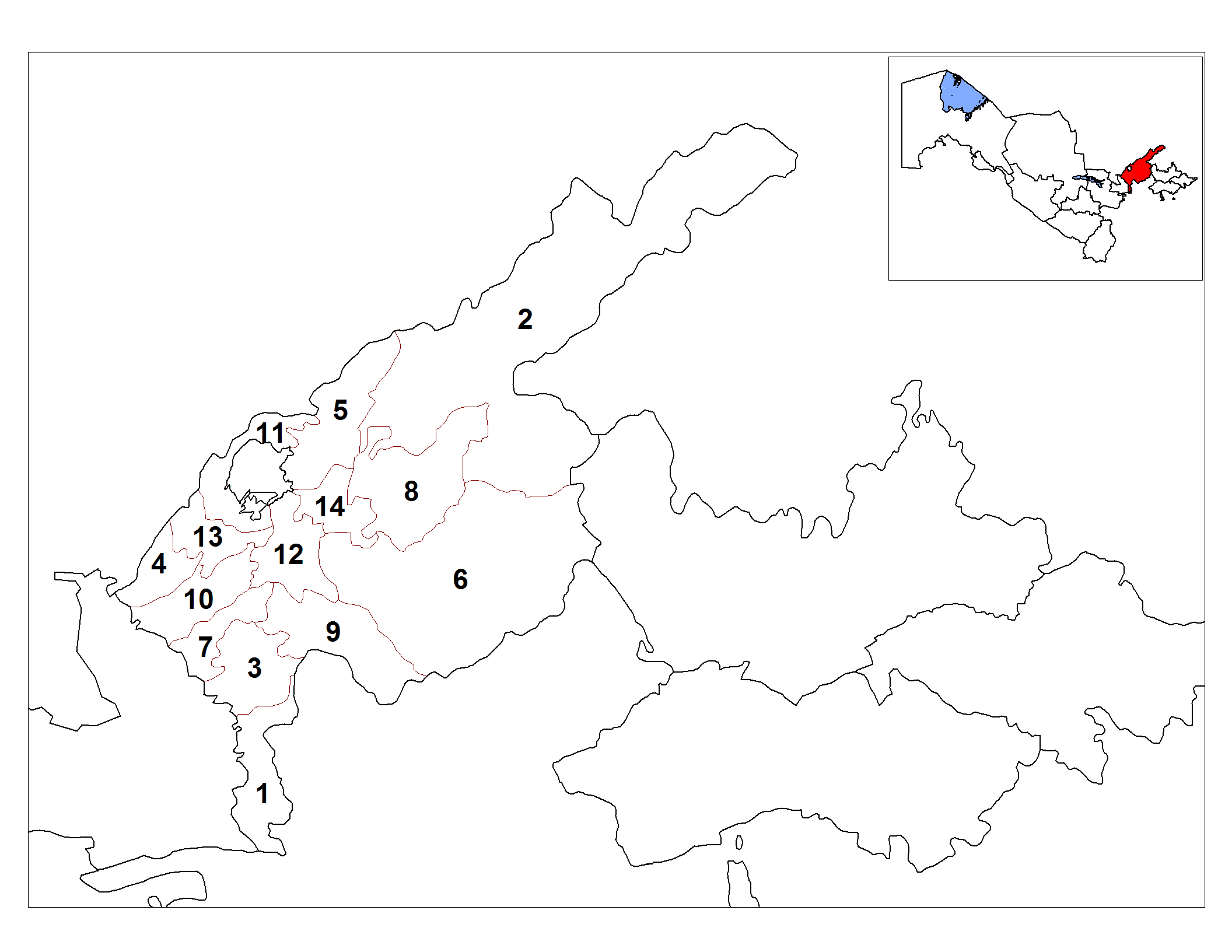 Map of the districts (tuman) of the province (viloyat) of Tashkent in Uzbekistan.